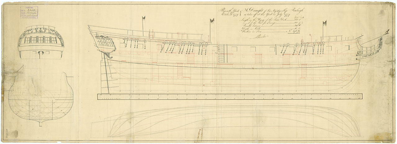 Body plan, stern board with decoration detail, sheer lines with inboard detail and figurehead, longitudinal half breadth for Raleigh (1778), a captured American Frigate, as taken off at Plymouth Dockyard in July 1779, prior to fitting as a 32-gun, Fifth Rate Frigate.